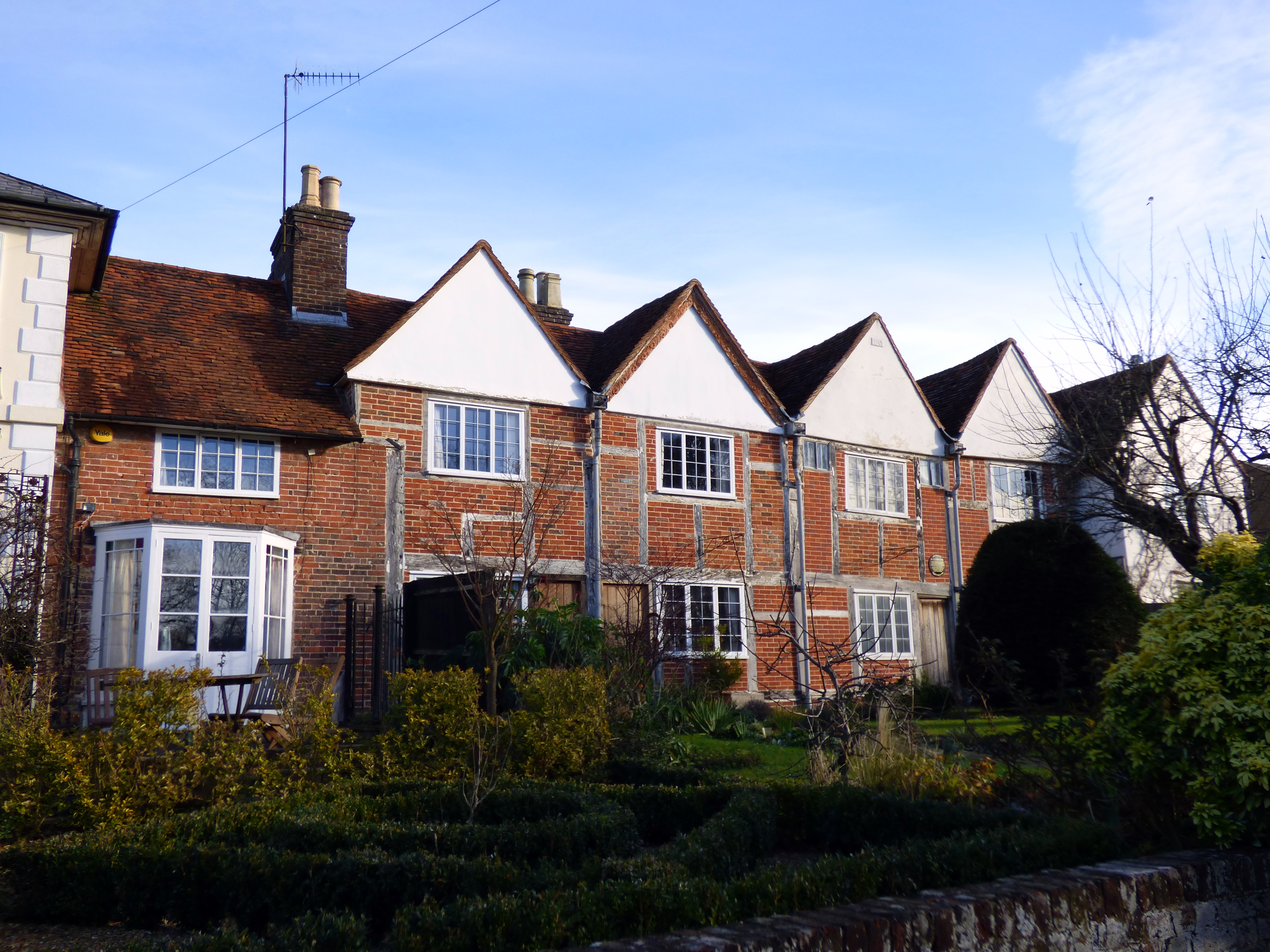 130–136 Piccott's End